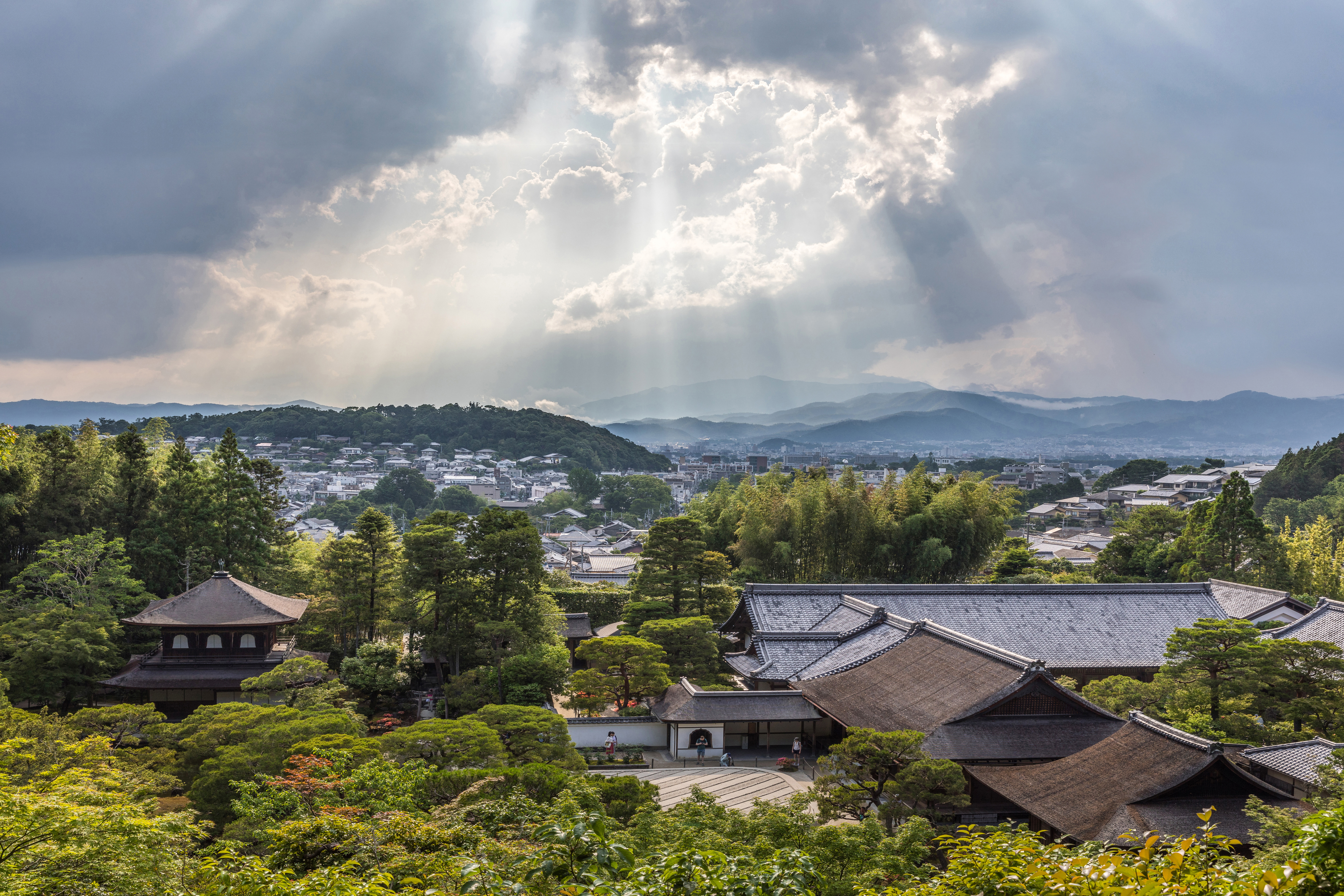 Sunlight through clouds and lookout view of Ginkaku-ji (Temple of the Silver Pavilion) and Tōgudō from above, Kyoto, Japan.